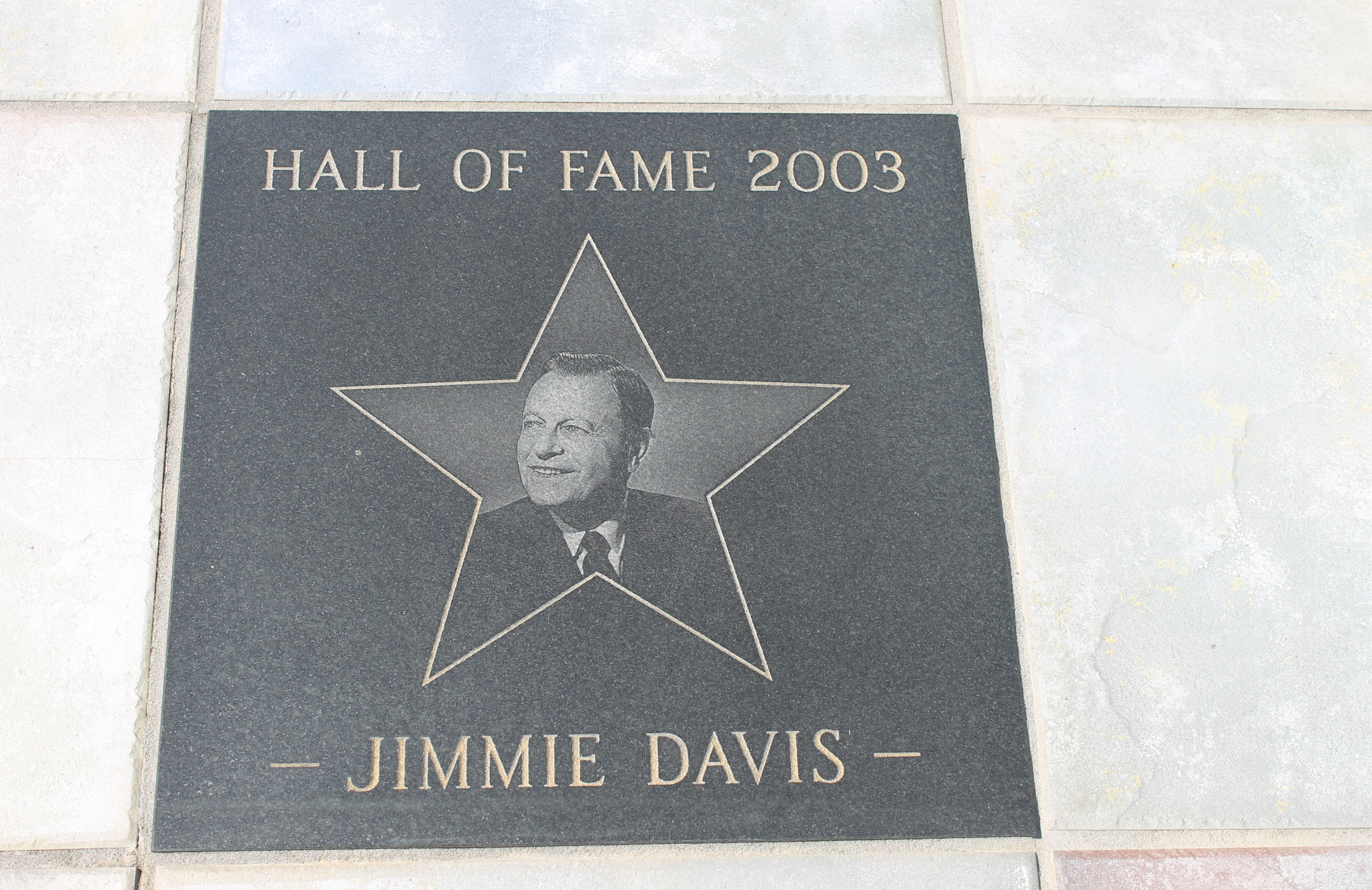 Jimmie Davis Delta Music Hall of Fame plaque, awarded posthumously, 2003, in Ferriday, LA